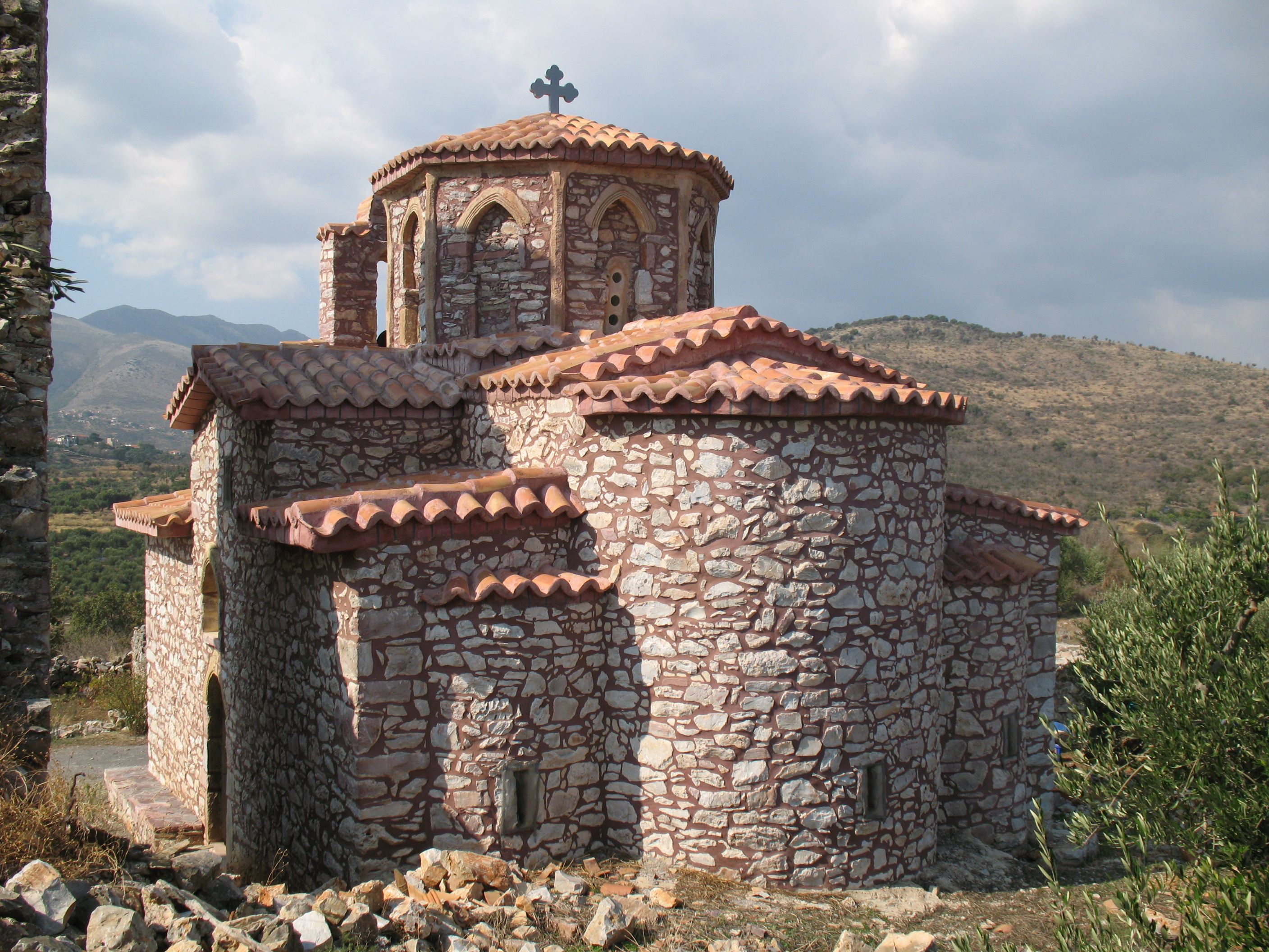 Abandoned and partially rebuilt monastery near Skoutari